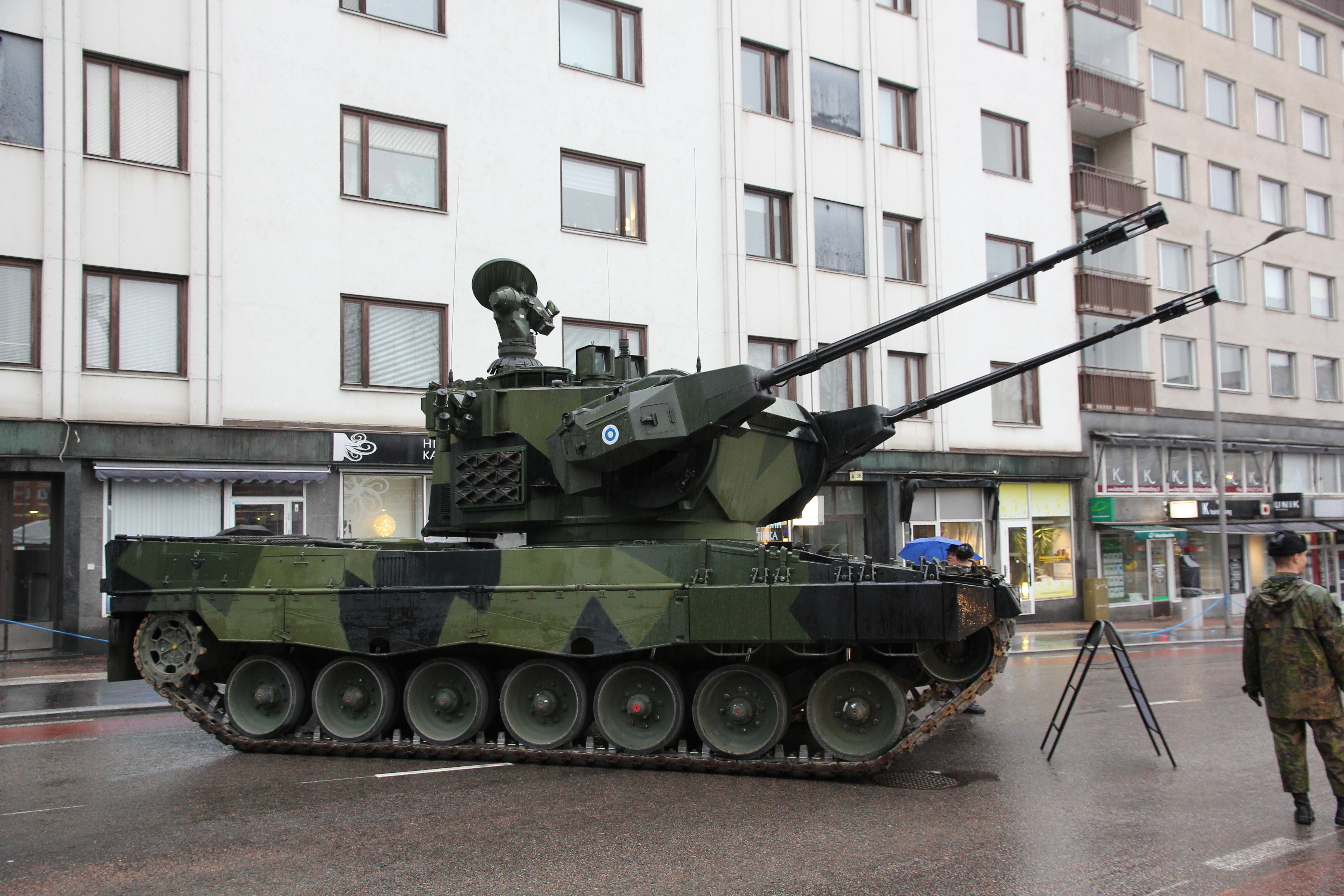 Finnish Leopard 2 Marksman (ItPsv 90 Marksman) Ps 473-100 self-propelled anti-aircraft artillery on display in Jyväskylä on Finnish Independence day 2015.